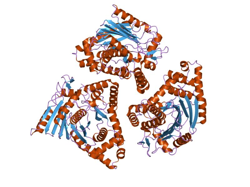 Cartoon representation of the molecular structure of protein registered with 1l5a code.